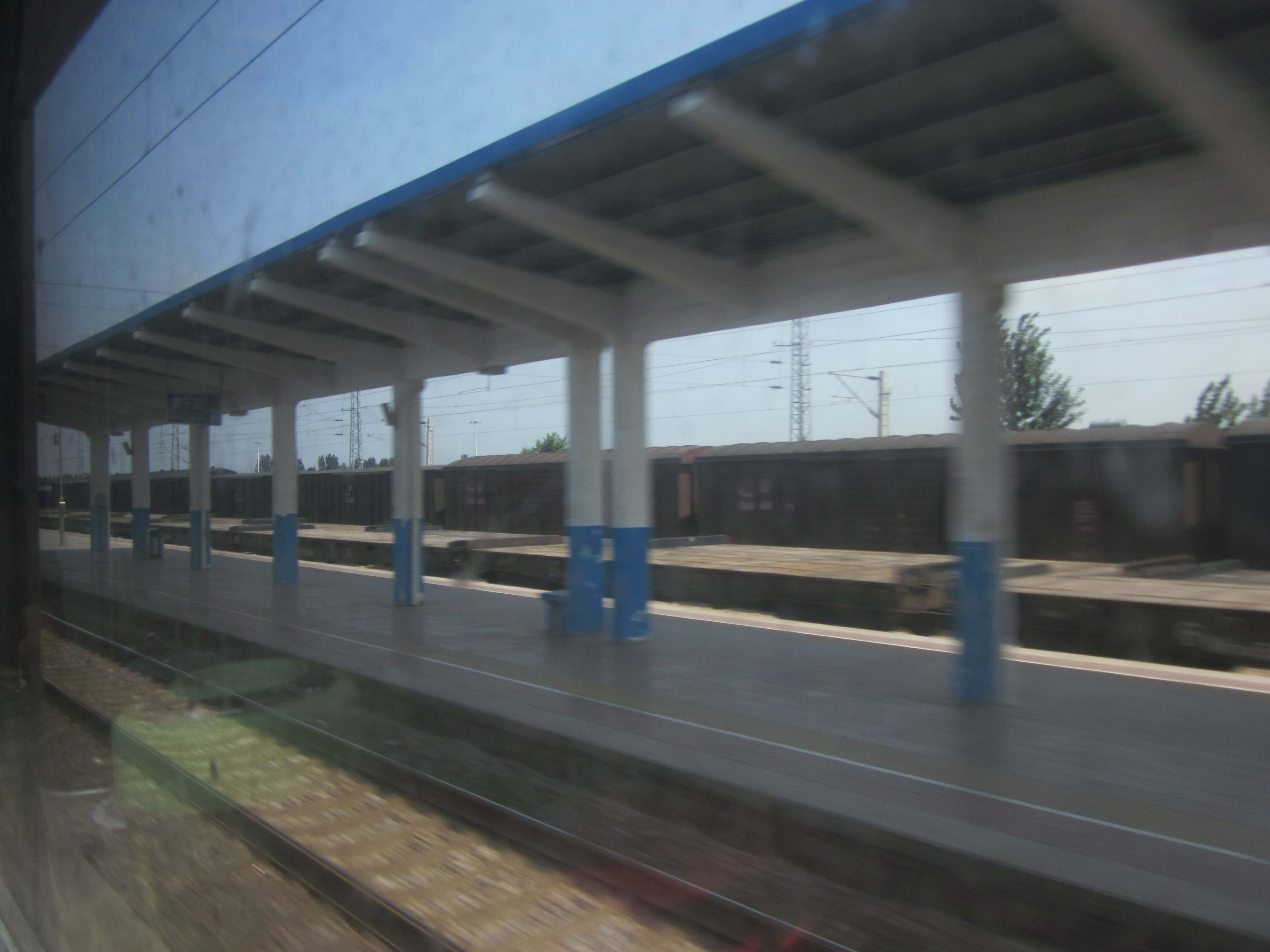 肅寧站月台